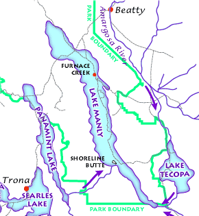 The Lake Manly lake system as it might have looked during its last maximum extent 22,000 years ago. (USGS image). The Lake Manly lake system as it might have looked during its last maximum extent 22,000 years ago. Arrows indicate river water flow, gray lines are current highways, and red dots are towns. (USGS image). The Lake Manly lake system as it might have looked during its last maximum extent 22,000 years ago. (USGS image).